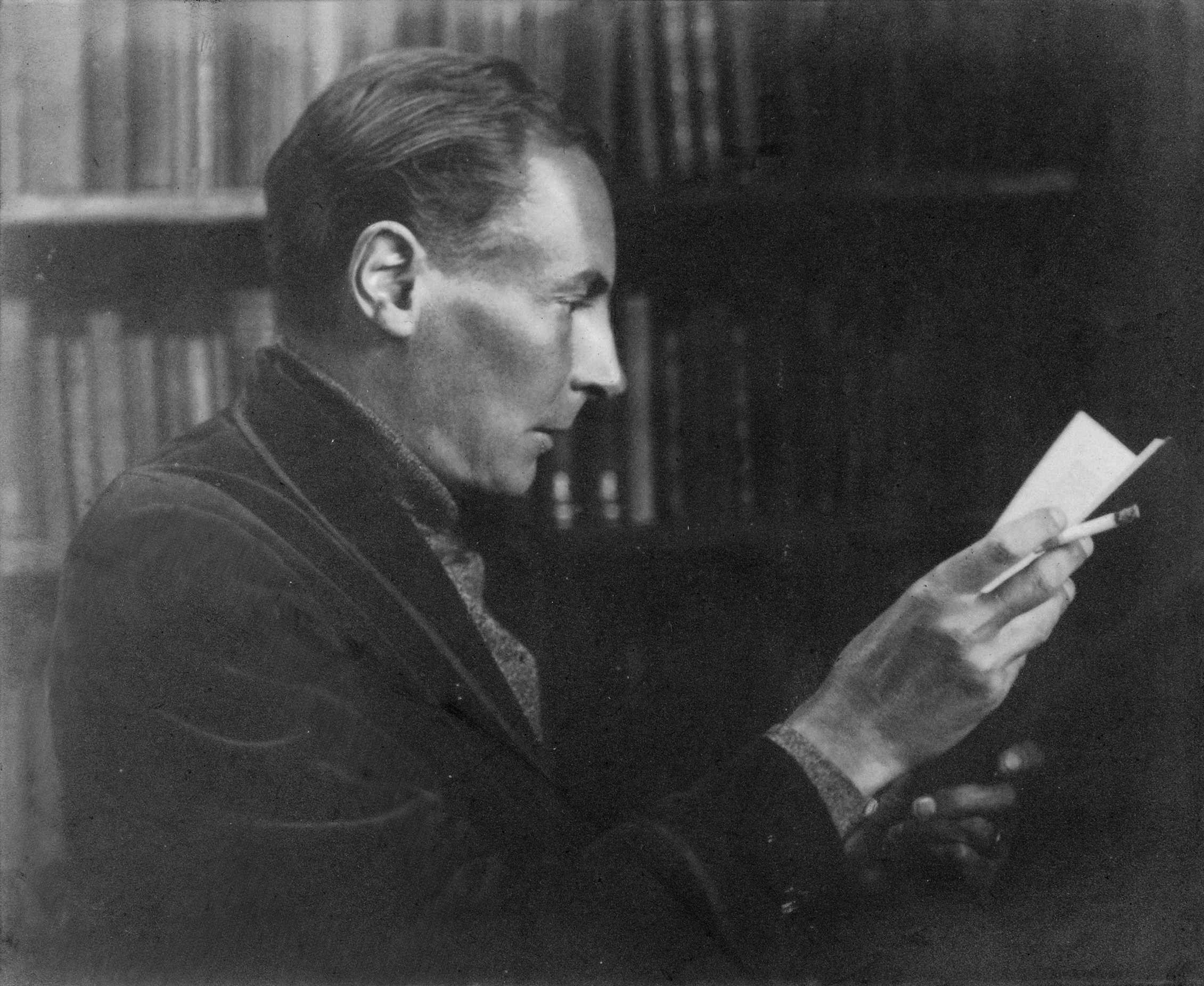 Robert Nichols silver print 19 x 15 cm 1930